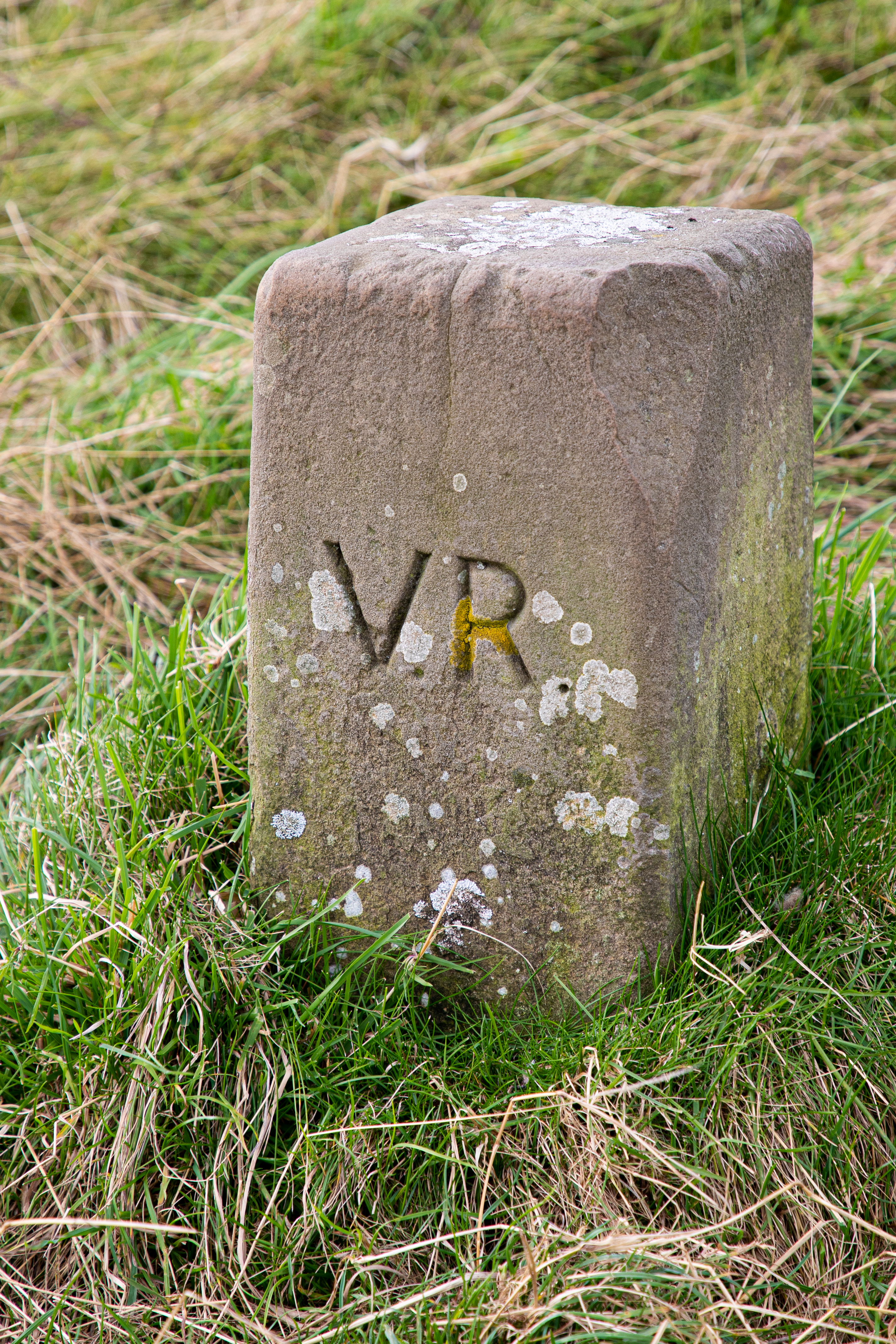 VR heritage marker at Arbor Low henge, Derbyshire Wikidata has entry Q630312 with data related to this item.